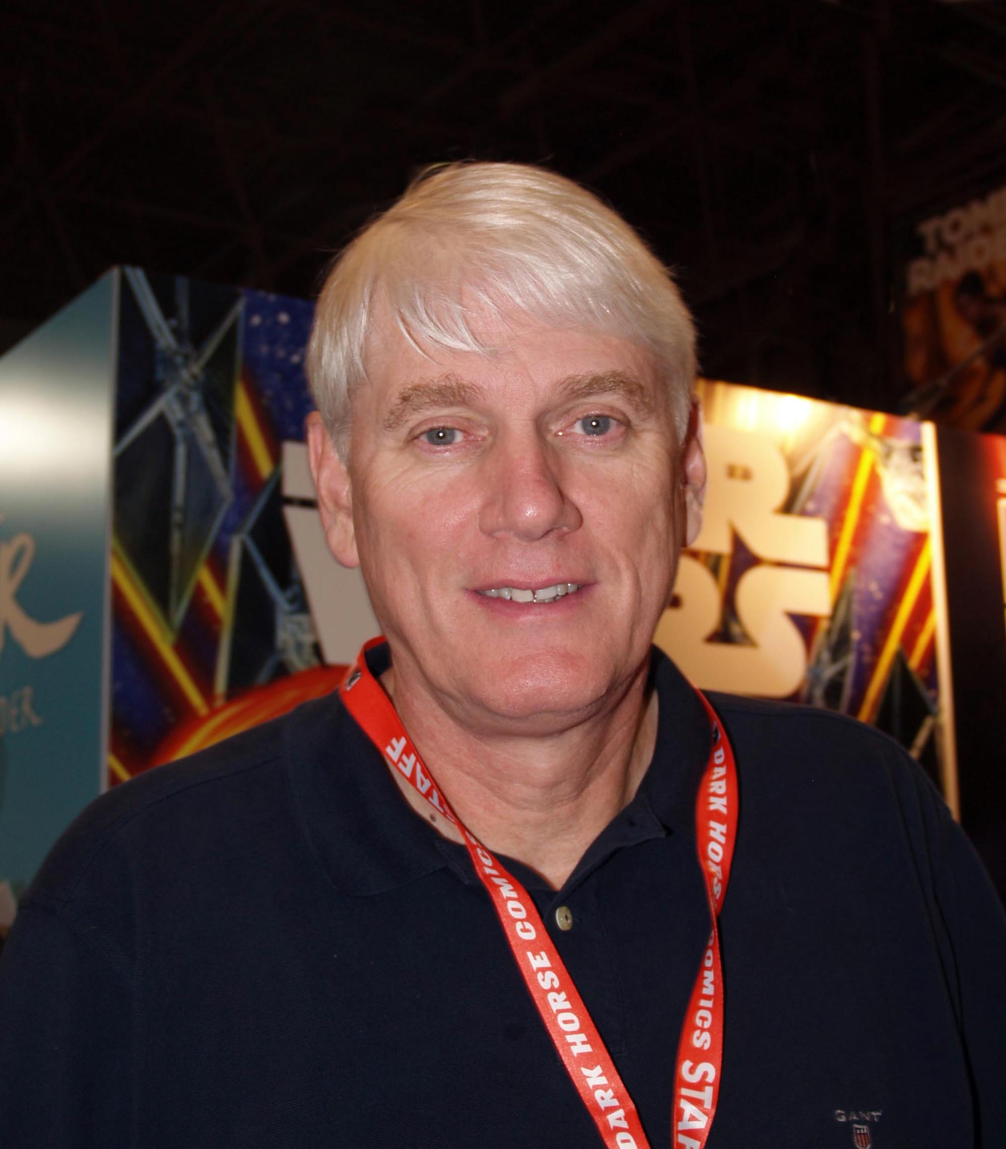 Dark Horse Comics founder and publisher Mike Richardson at the Dark Horse Comics booth on Friday October 11, 2013 at the Jacob K. Javits Convention Center in Manhattan, Day 2 of the 2013 New York Comic Con. This photo was created by Luigi Novi. It is not in the public domain, and use of this file outside of the licensing terms is a copyright violation.